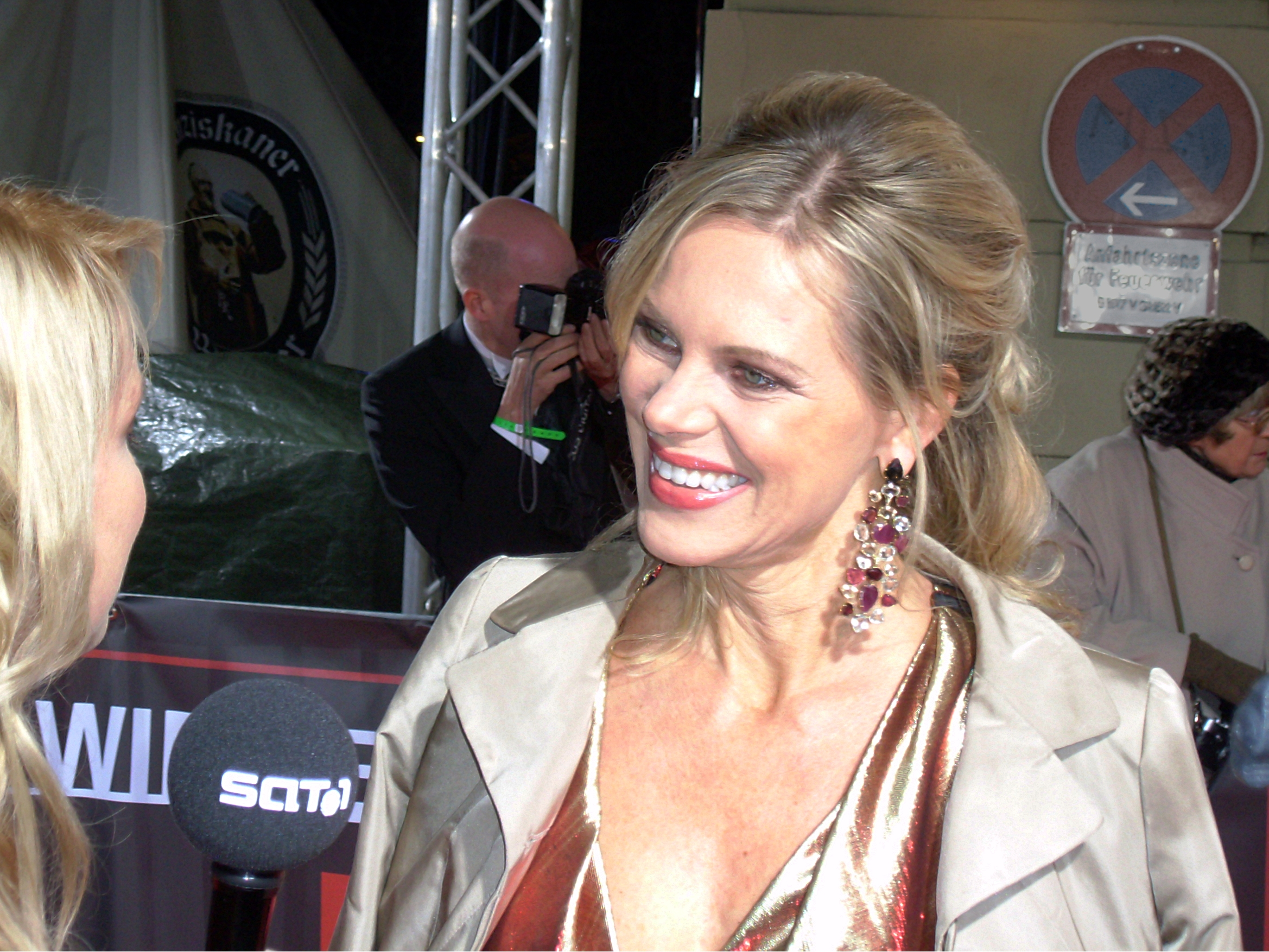 Nina Ruge at Diva 2008